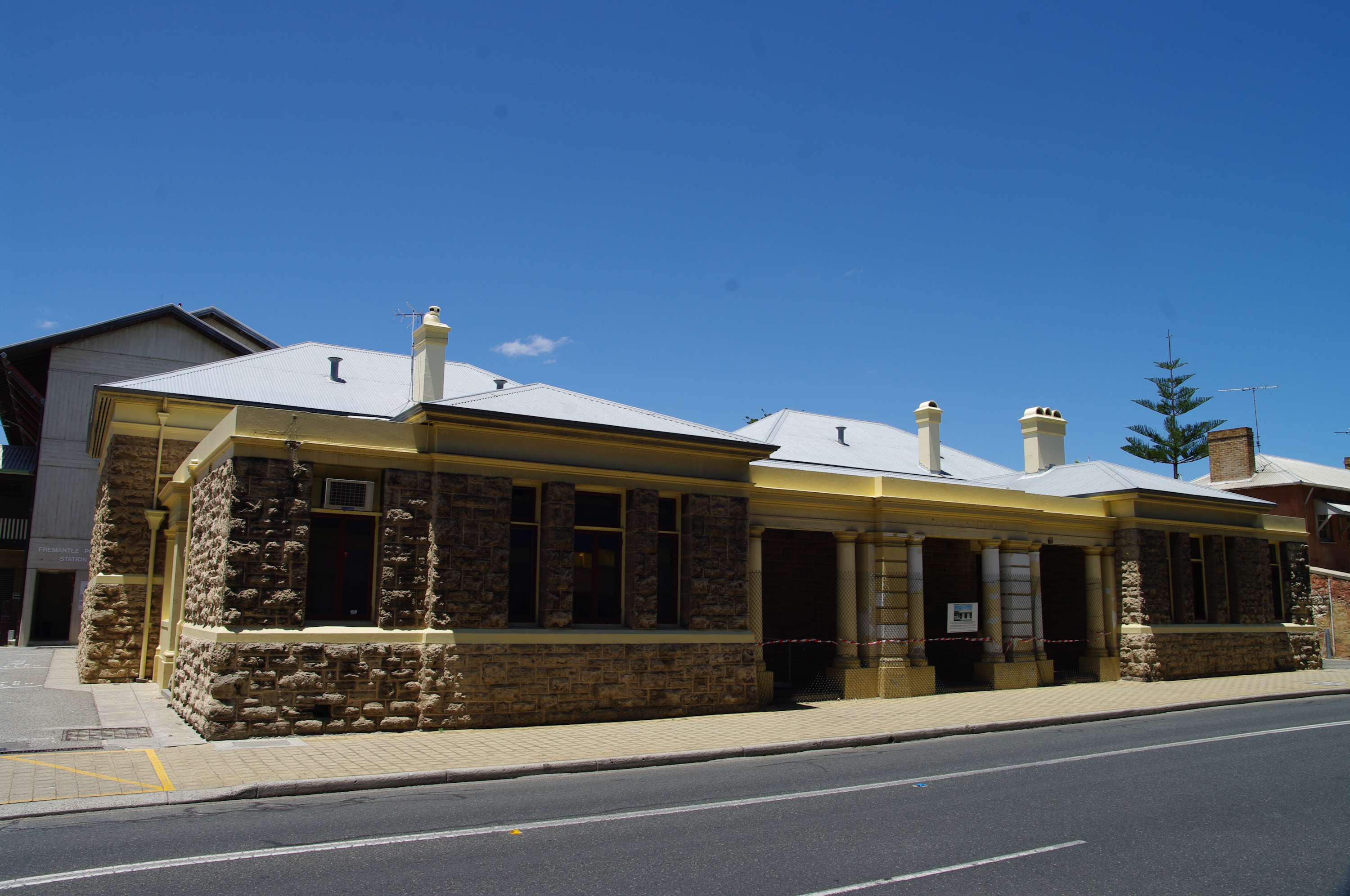 Wiki takes Fremantle 2 Fremantle Police Station